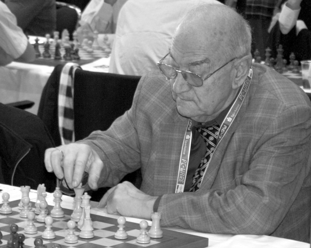 Chess grandmaster Victor Korchnoi, Switzerland. (Brighter version)